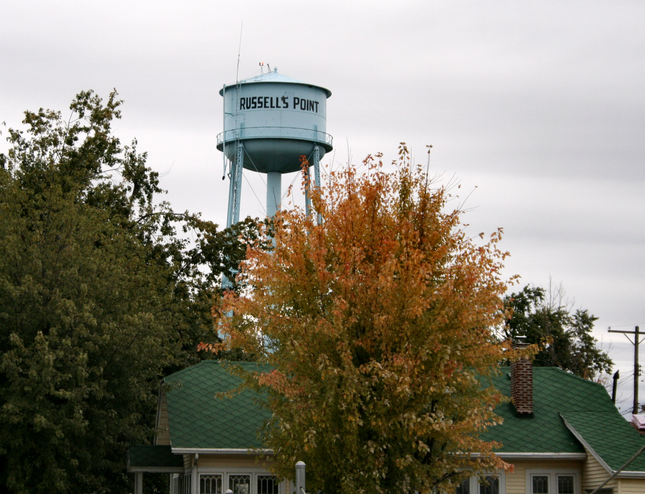 Water tower of Russells Point, Ohio. Photo shot by Derek Jensen (Tysto), 2005-October-20